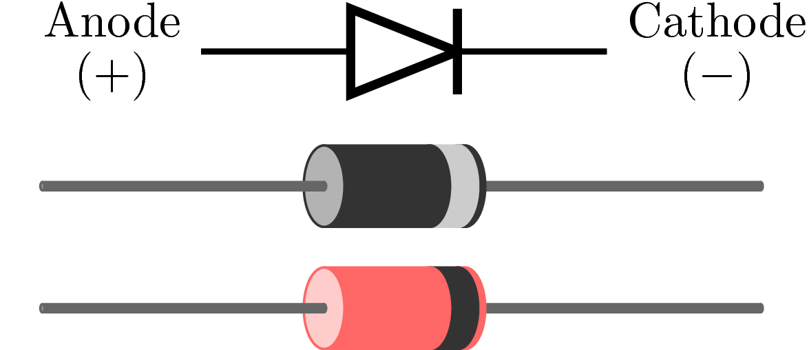 Shows typical diode symbol, electrode names, and depictions of common packages in same alignment as circuit symbol.